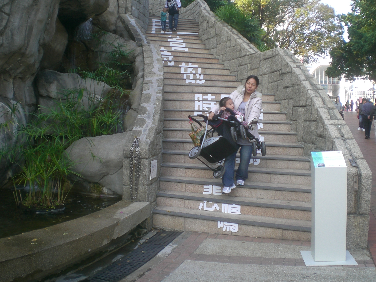 尖沙咀九龍公園